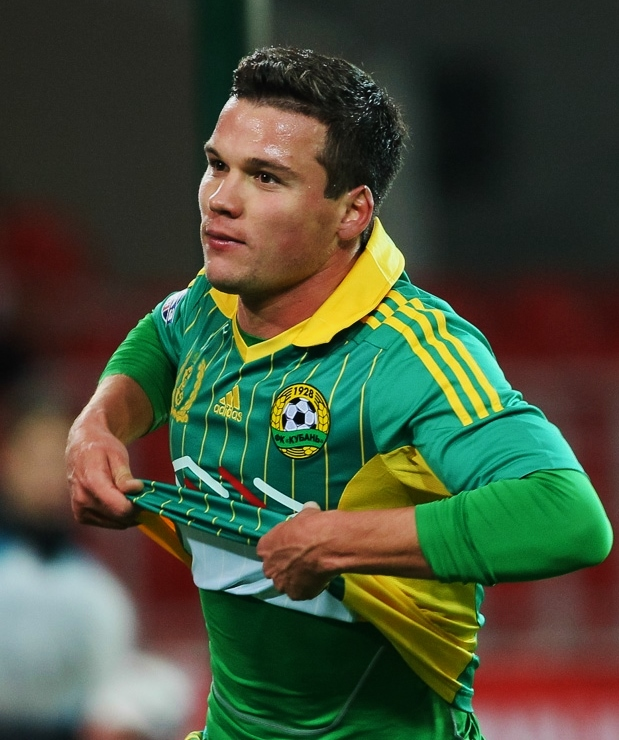 Sergei Tkachyov